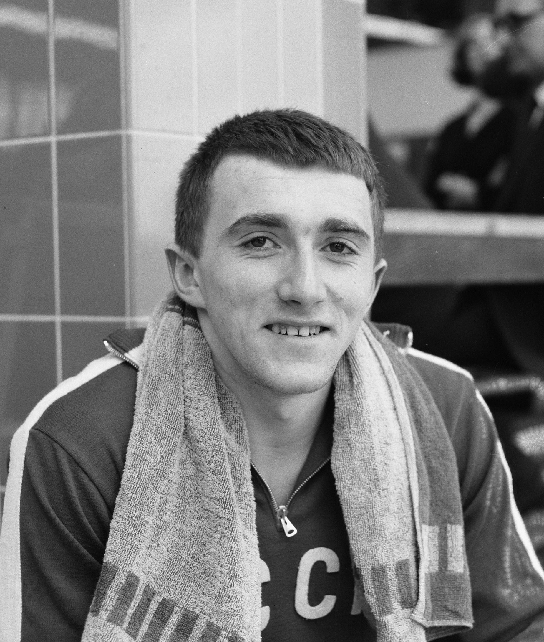 Zwemwedstrijden in Den Bosch , Dunajew (Rusland)